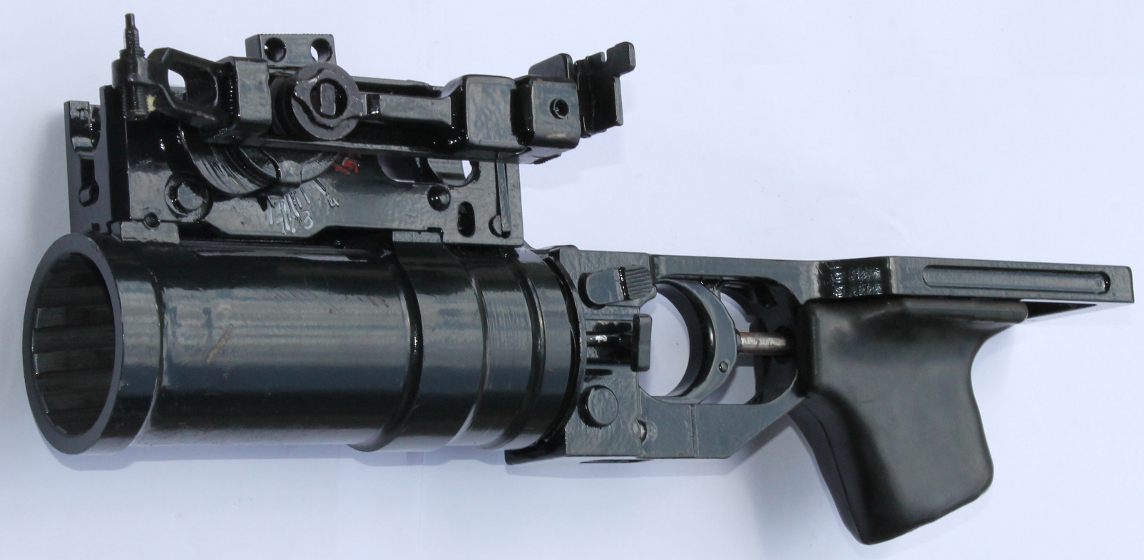 Georgian under barrel grenade launchers. made in stc delta